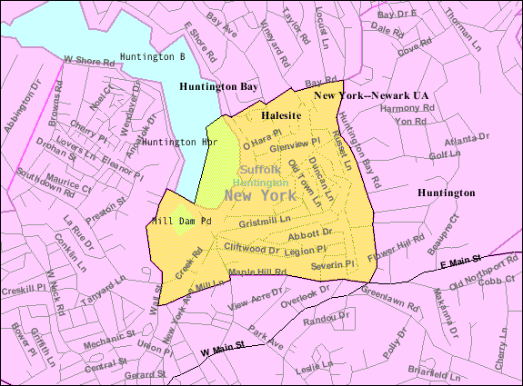 U.S. Census 2000 reference map for Halesite